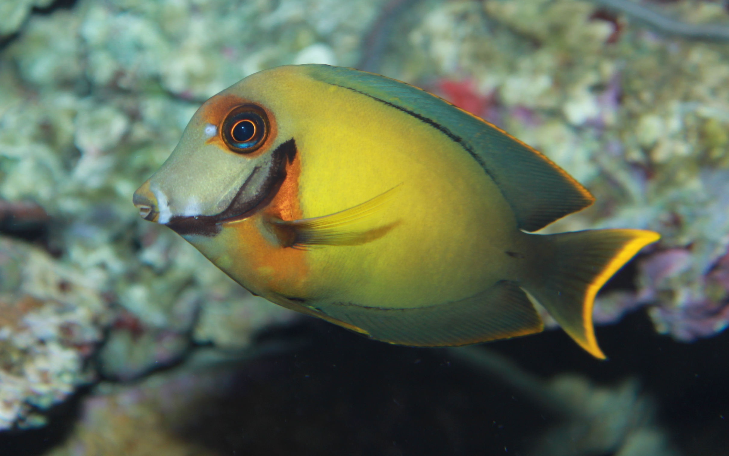 Chocolate tang (Acanthurus pyroferus)